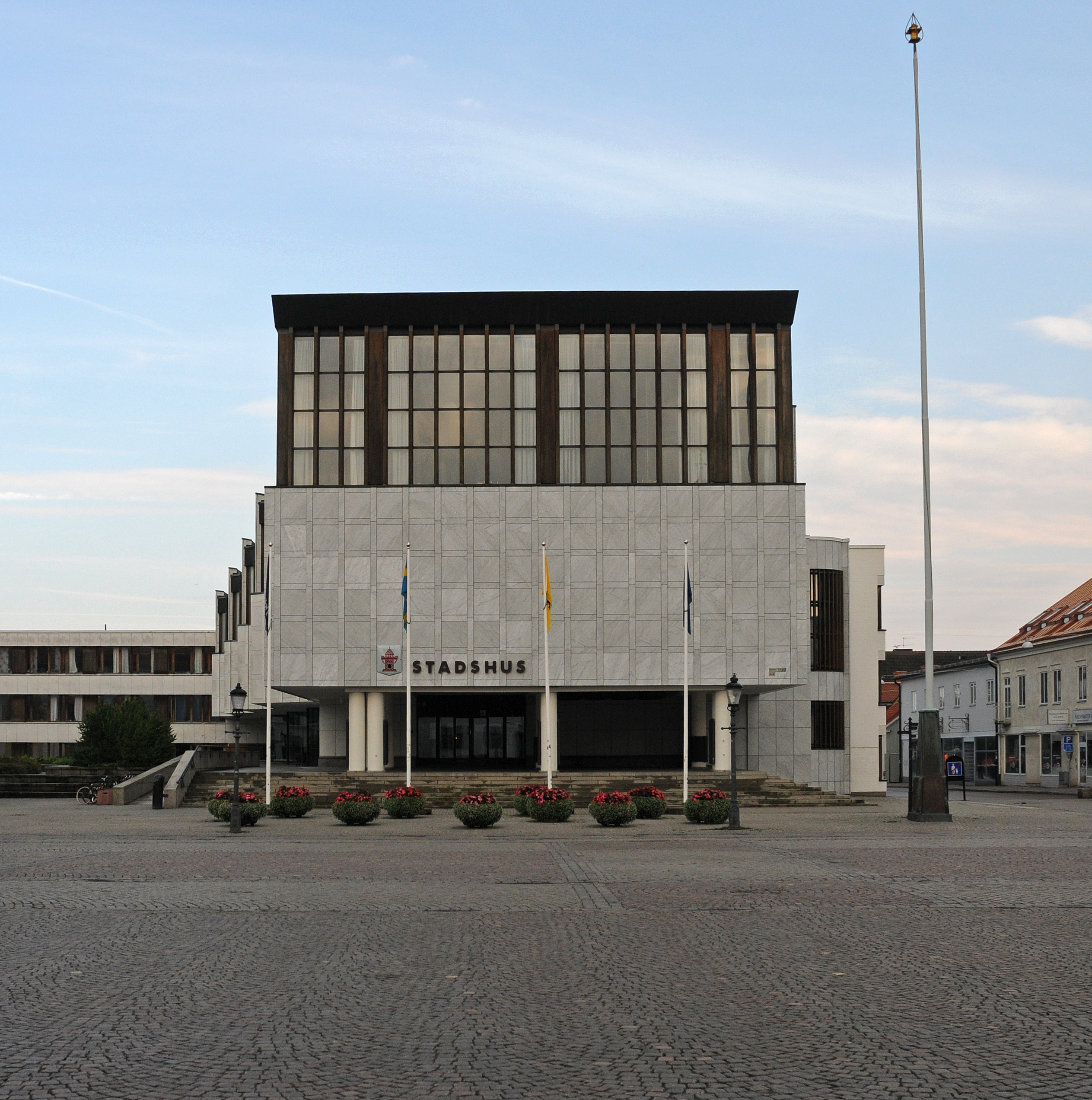 City Hall in Nyköping